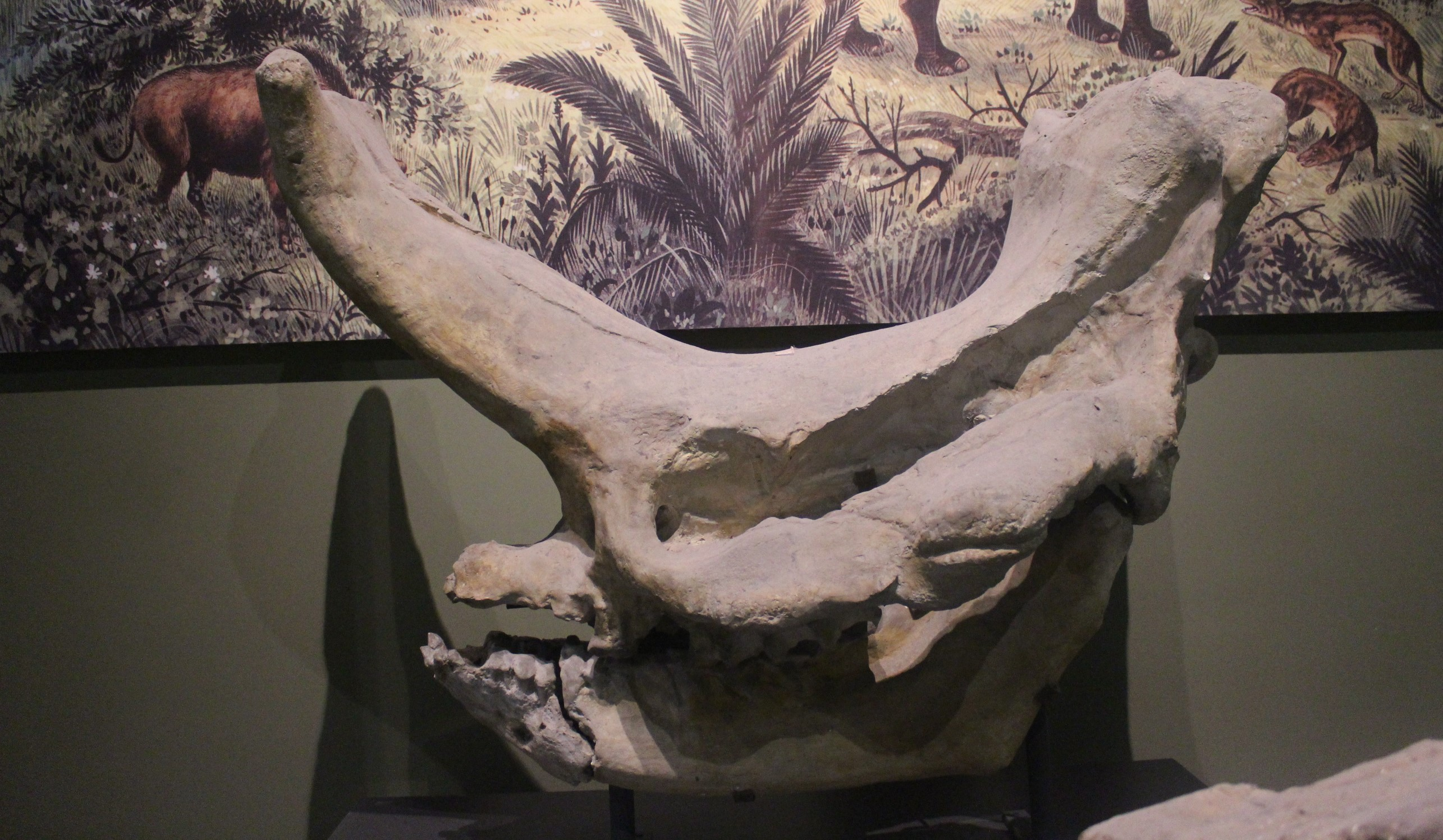 Skull of Embolotherium andrewsi on display at the Tianjin Natural History Museum.